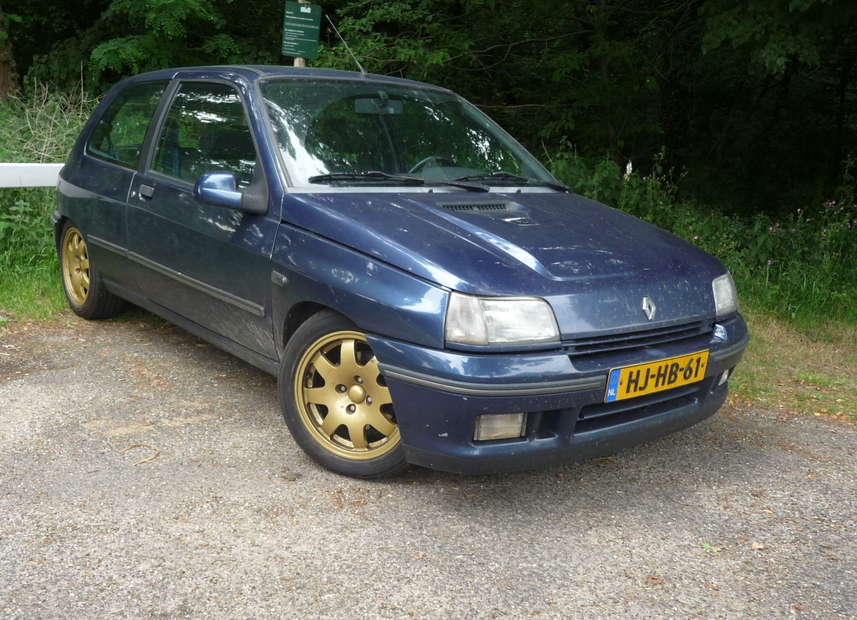 HJ-HB-61 Car has been scrapped meanwhile